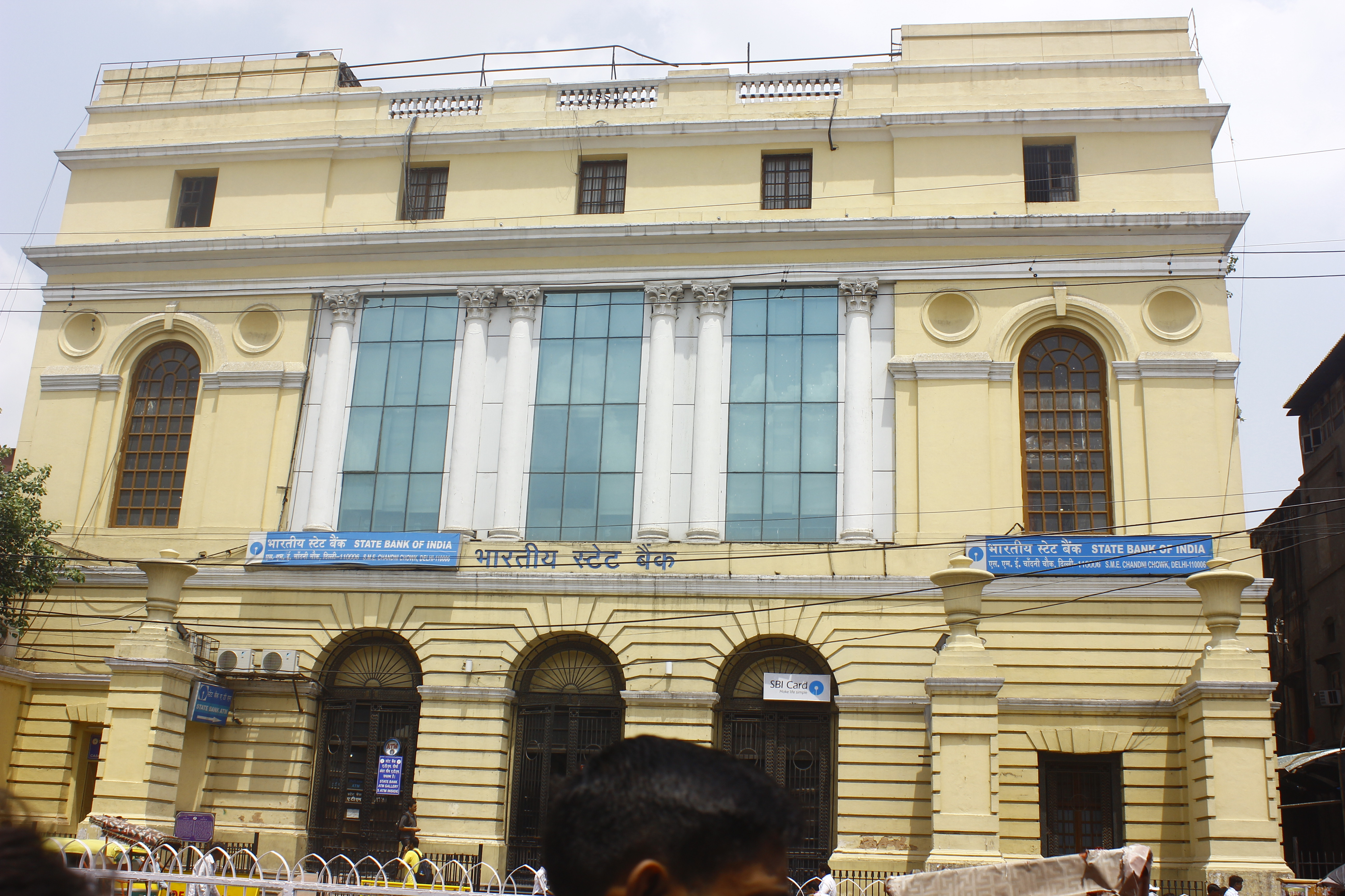 Chandni Chowk, Delhi